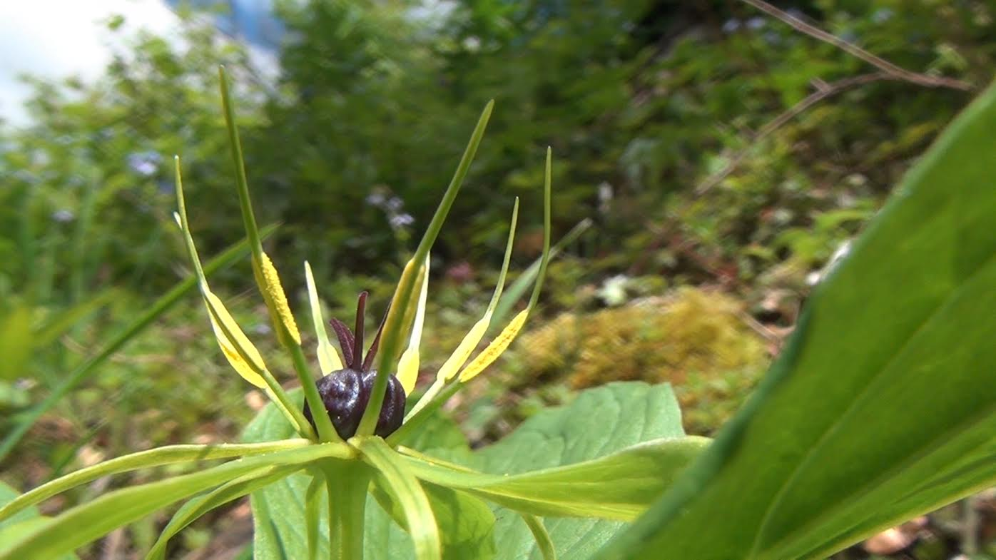 Paris quadrifolia (detail of flower)